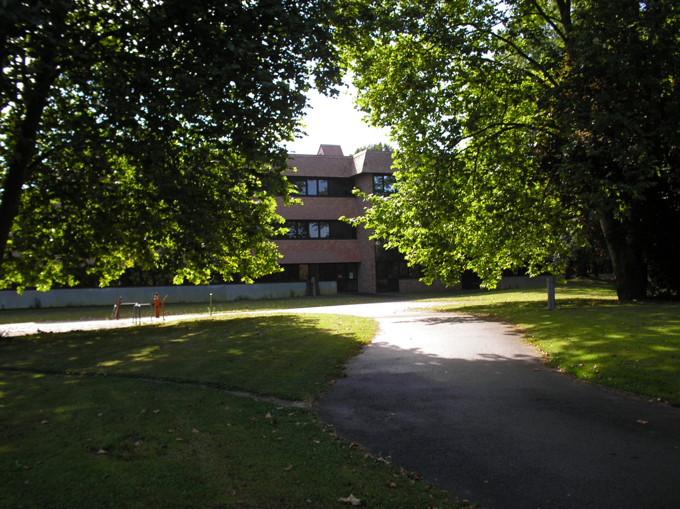 Rear view of fac de Lettres on UPPA campus